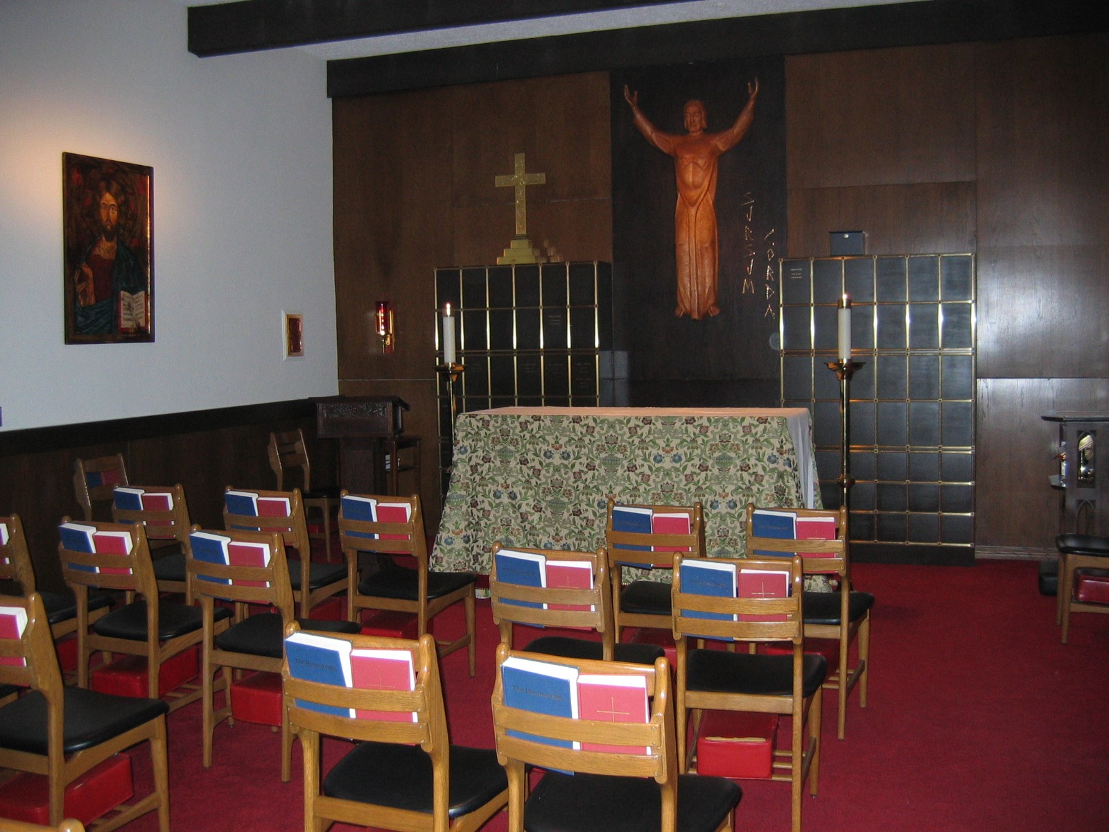 This is the Oratory within the Cathedral Church of Saint Matthew. This is my photograph and you are welcome to use it. Sarum blue 15:20, 21 February 2006 (UTC)